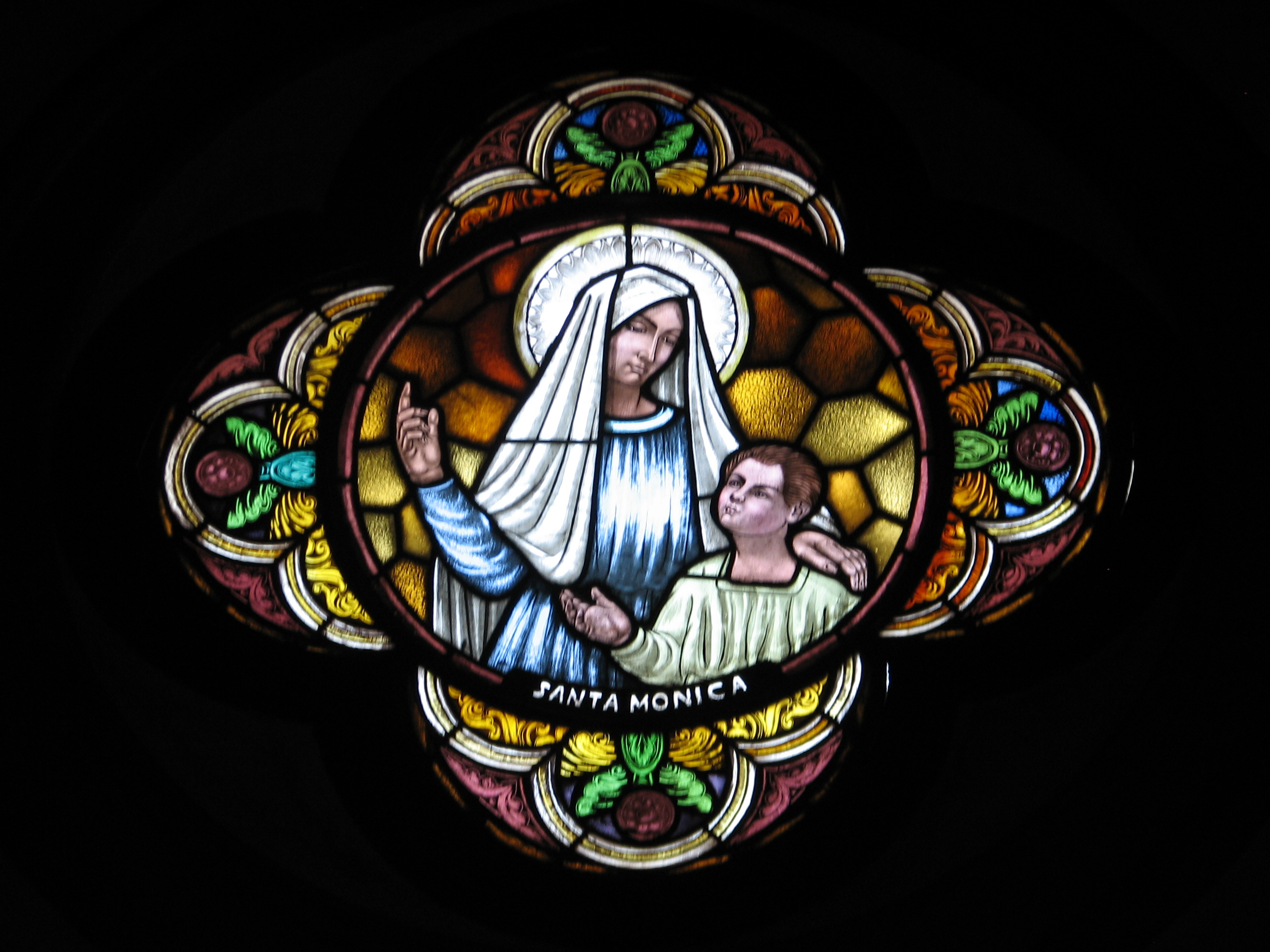 Cathedral Iquitos stained glass window Iquitos/Maynas/Loreto, Peru.